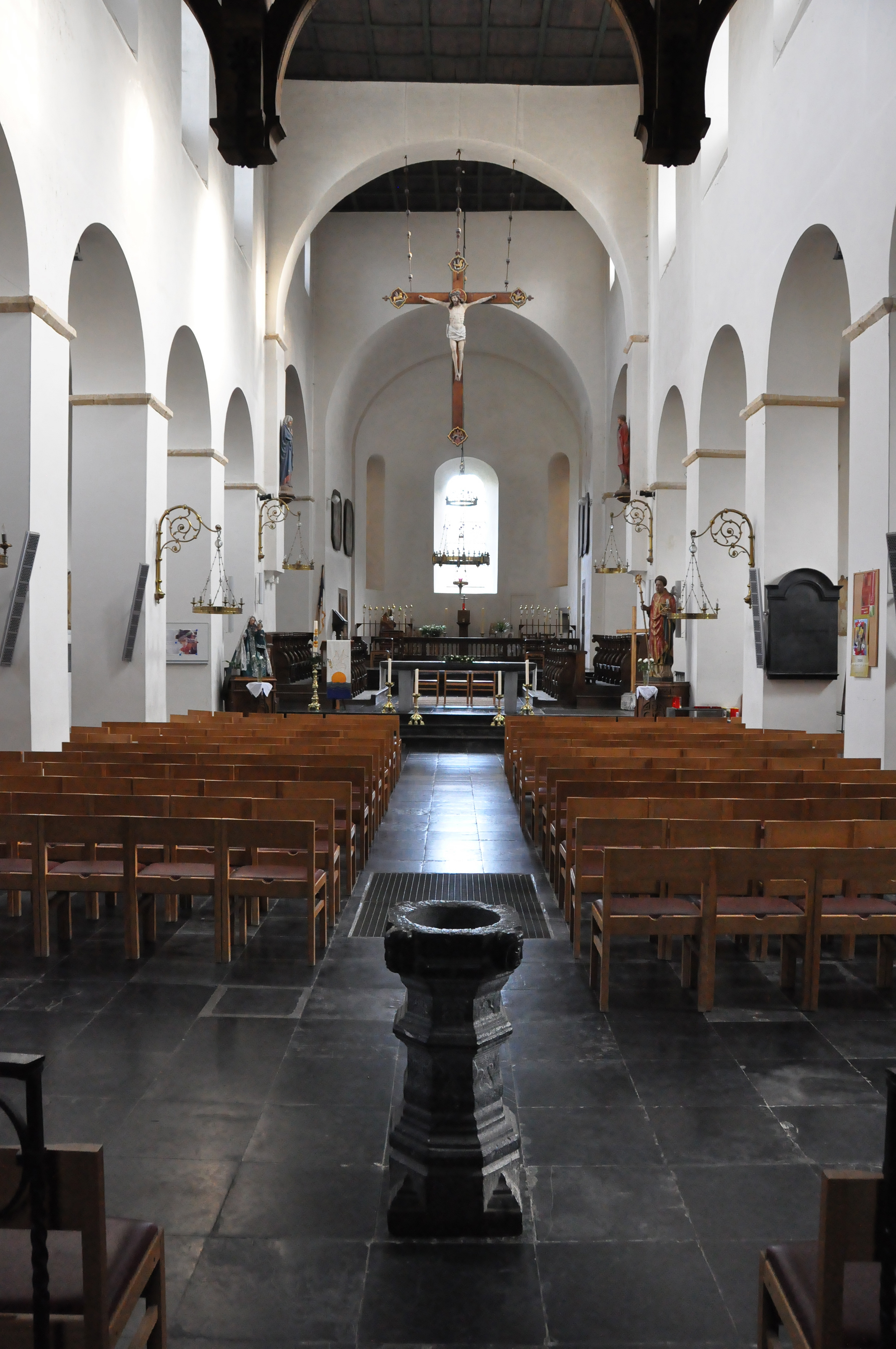 Celles (Houyet, Belgium): interior of the St Hadelinus church